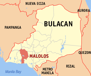 Map of Bulacan showing the location of Malolos